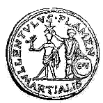 738 woodcuts illustrating the work A Dictionary of Roman Coins, Republican and Imperial (1889). To identify a coin please look at the filename to identify a page number, and check the Dictionary on numiswiki